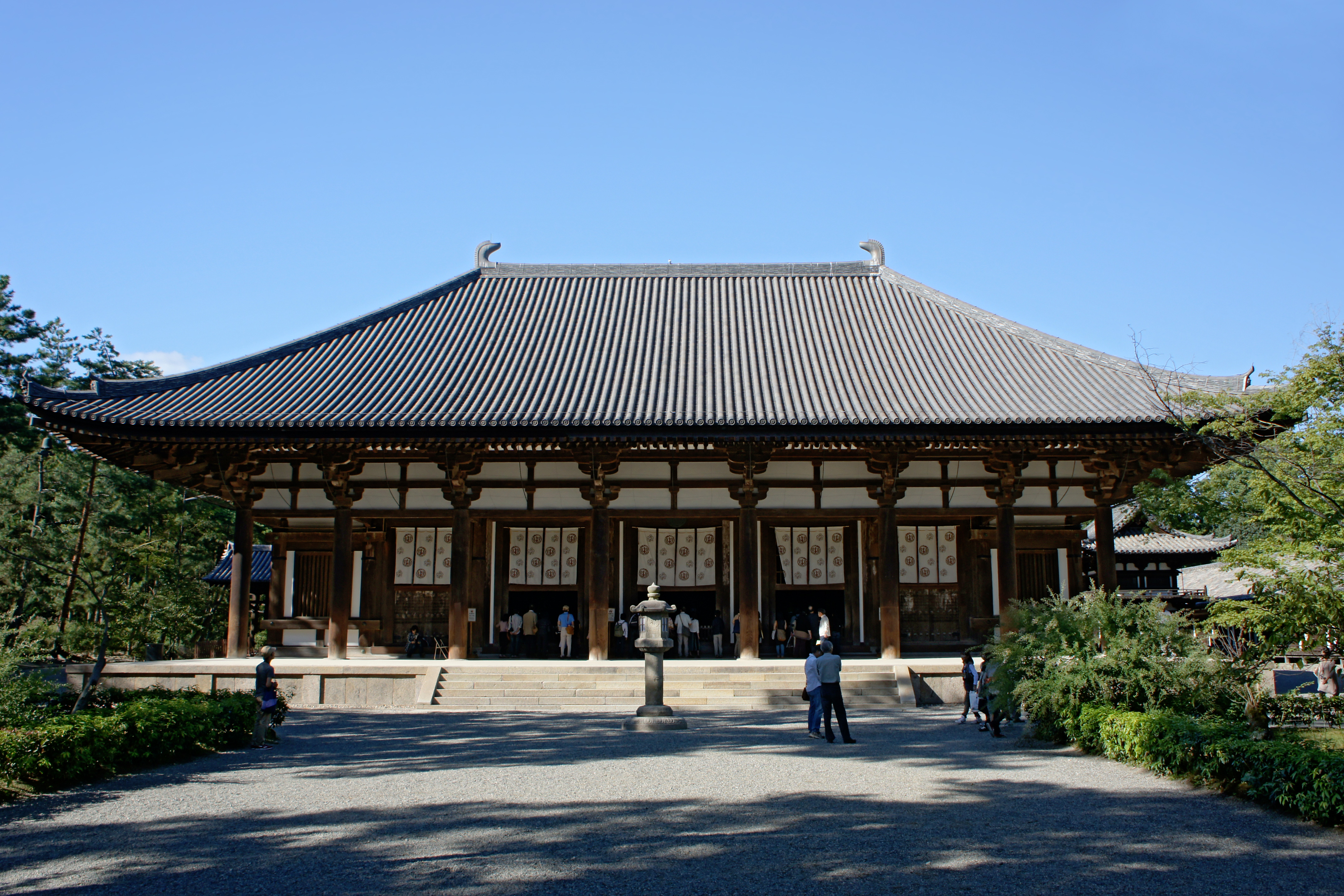 Tōshōdai-ji's Golden Hall is a Japanese National Treasure in Nara, Nara prefecture, Japan. It was built at the Nara period (AD 710 to 794). Tōshōdai-ji was registered as part of the UNESCO World Heritage Site "Historic Monuments of Ancient Nara".